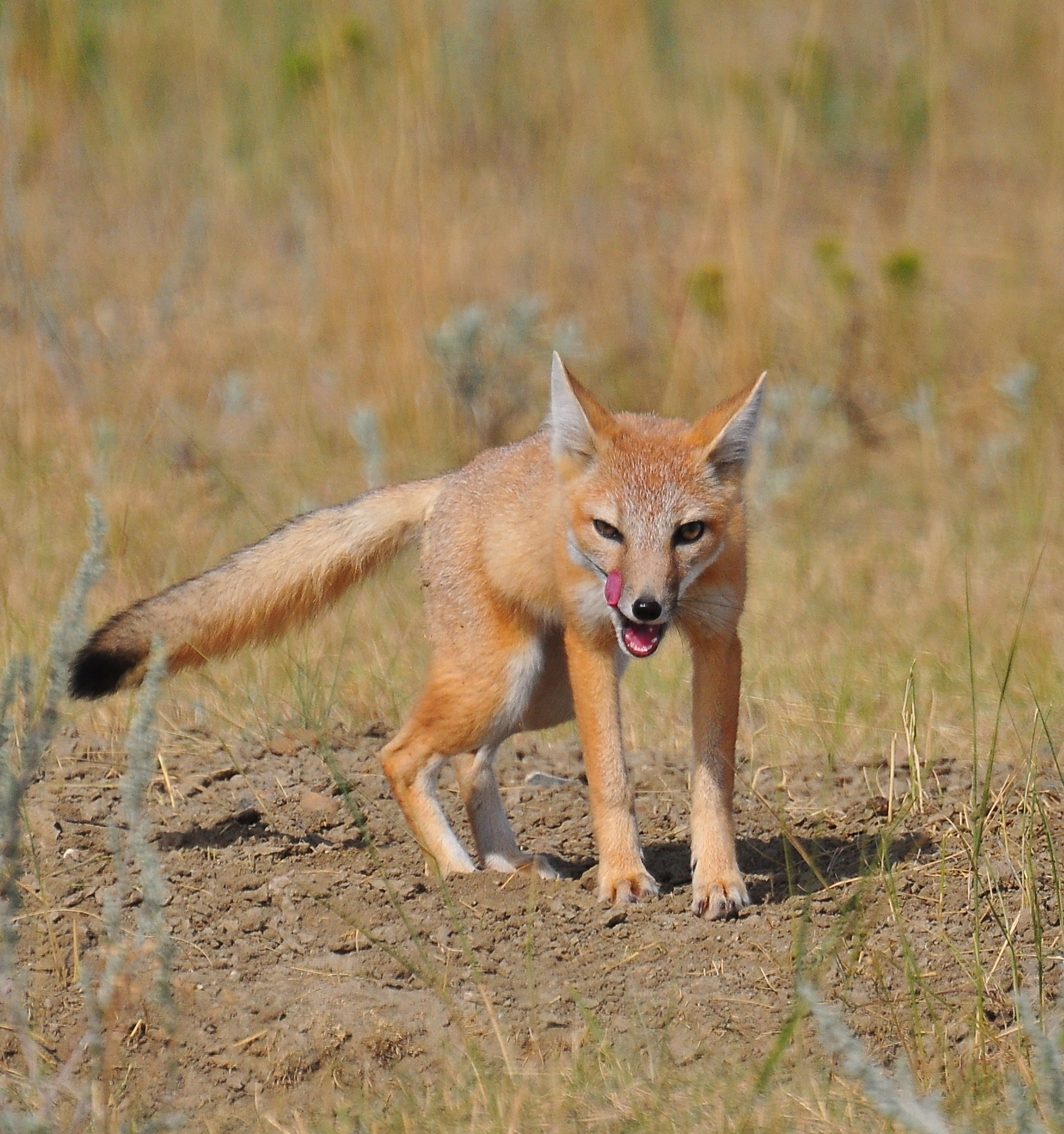 More than 3,000 species of wildlife occur on BLM’s more than 245 million acres in 23 States, dispersed over some of the Nation’s most ecologically diverse and essential habitat. In fact, the BLM manages more wildlife habitat than any other Federal or state agency. BLM-managed lands are vital to big game, upland game, waterfowl, shorebirds, songbirds, raptors and hundreds of species of non-game mammals, reptiles, and amphibians. Wildlife-related activities on BLM’s lands, such as hunting or bird watching, contribute hundreds of millions of dollars in economic benefits to local communities. Photo by Craig Miller